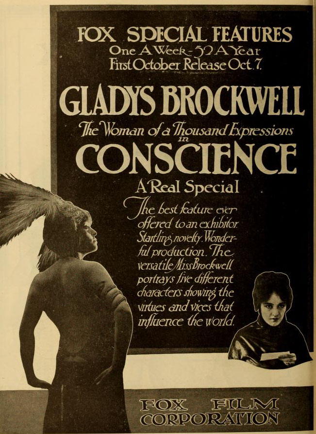 Advertisement in Moving Picture World for the American film Conscience (1917) with Gladys Brockwell.